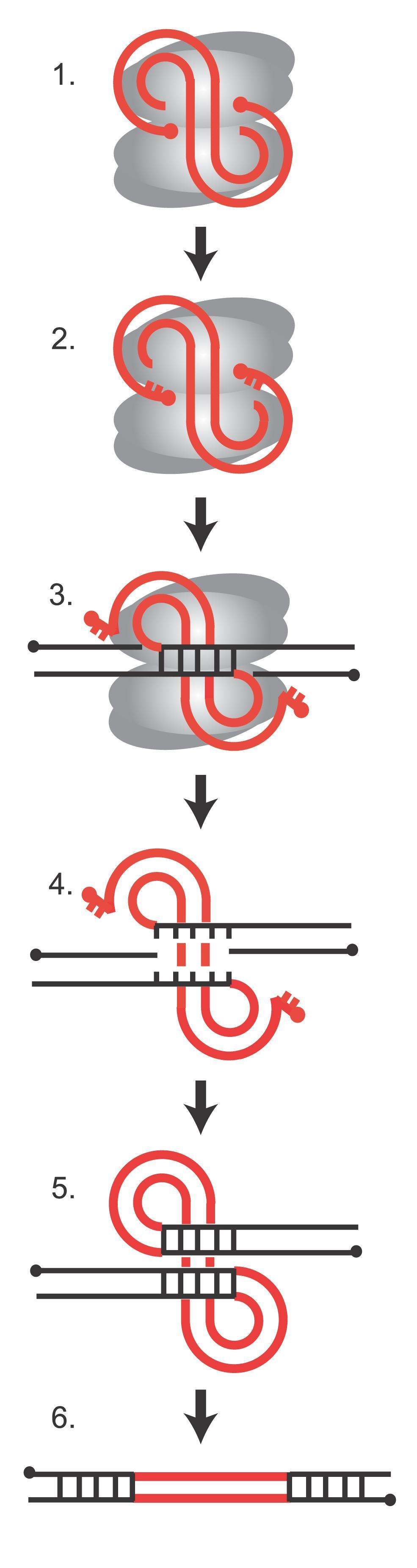 Mechanism of retroviral integration